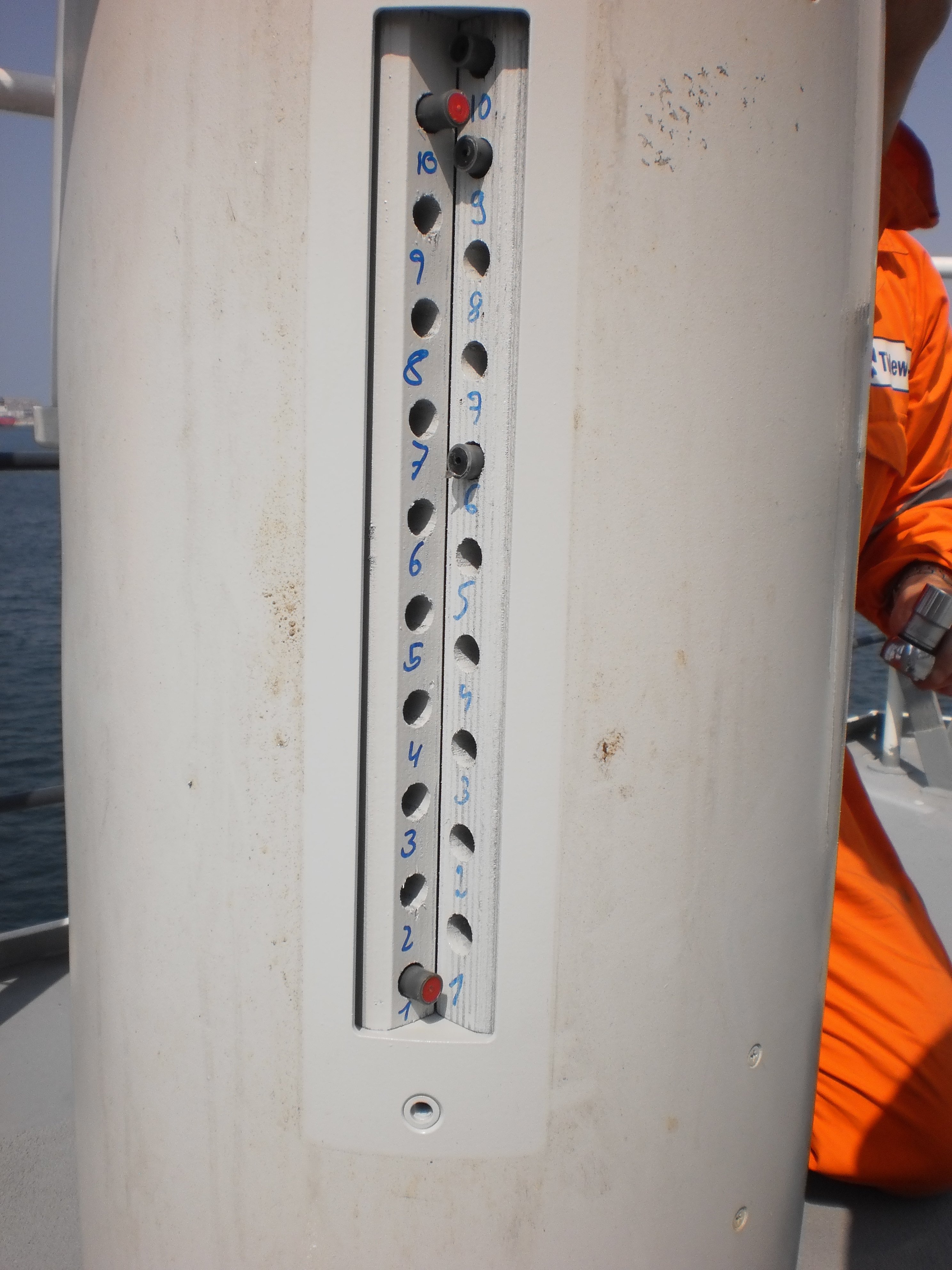 Slots for small magnets in Compass Binacle. Small magnets are positioned to compensate influence of ship's magnetic field on compass